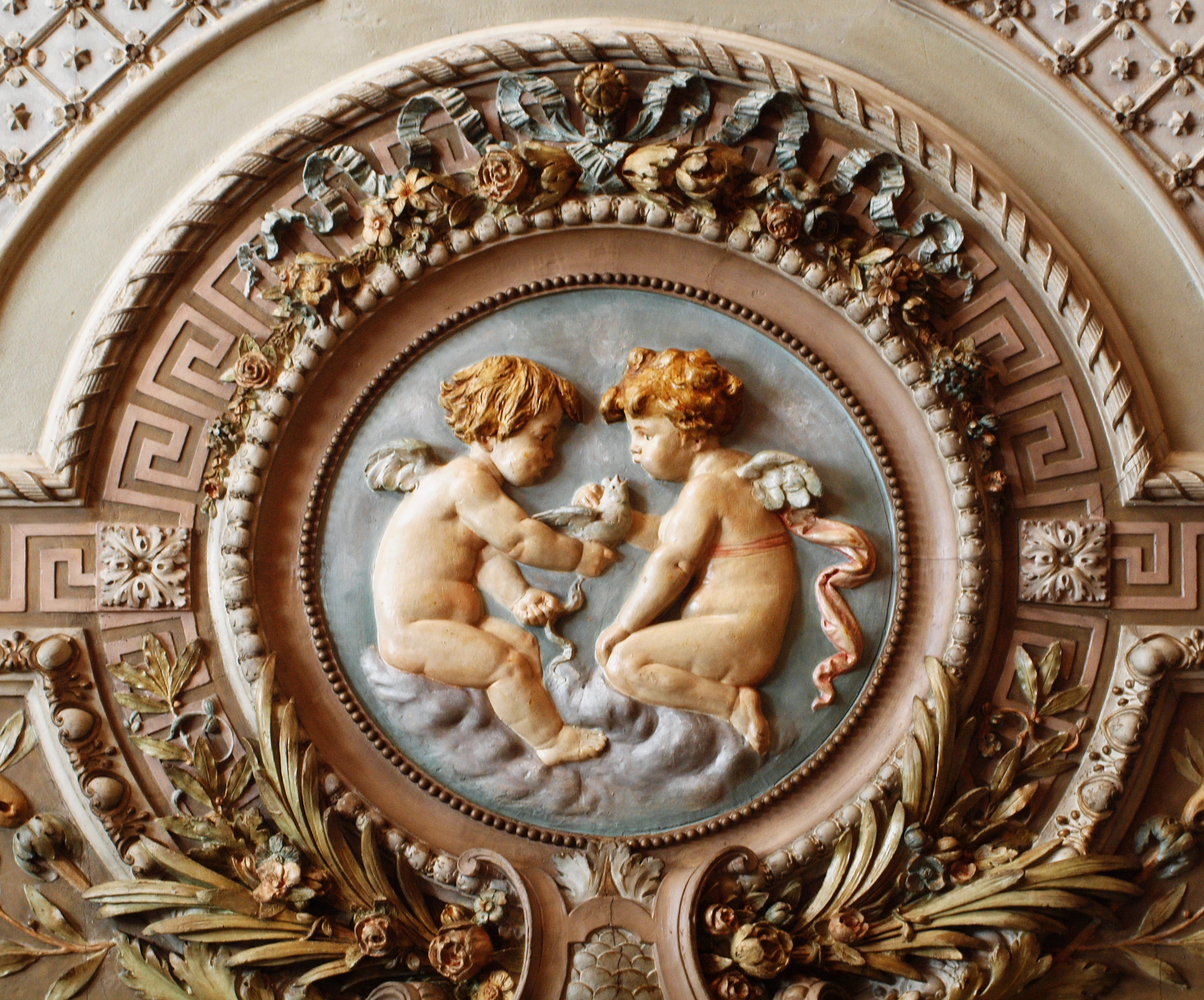 A painted stucco round relief on a ceiling in the building of the Estonian Literary Museum in Tartu.